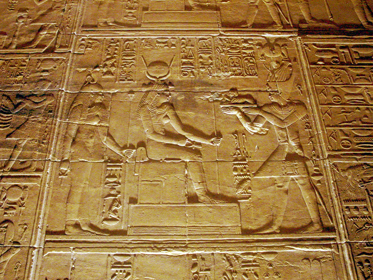 A nightime picture of the reliefs from the Temple of Philae depicting Ptolemy II and Isis.